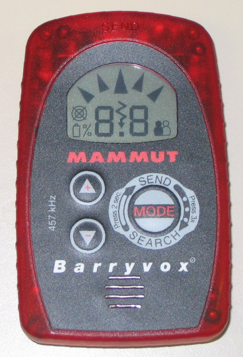 Avalanche transceiver: When transmitting, the device emits a pulsed signal which another transceiver can receive. Due to the nature of the radio pulse, a person holding the receiving beacon can orient it, and home in on the location of the transmitting beacon.